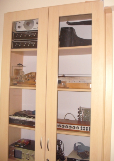 Fragment of the Electroacustic Studio (Academy of Music in Kraków)